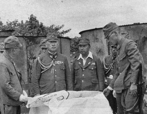 Hajime Sugiyama and other officers in Java